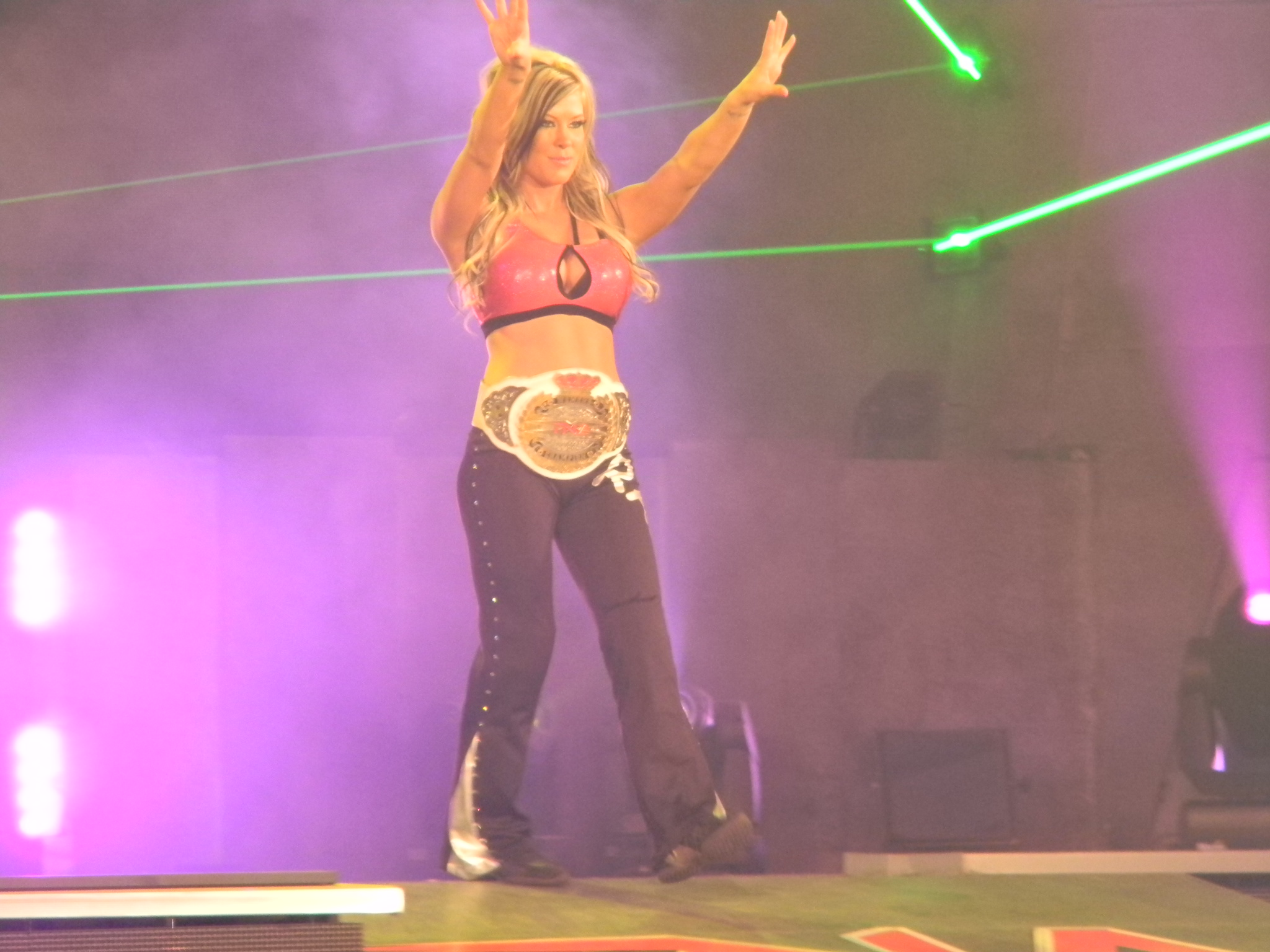 Madison Rayne, making her entrance down the ramp for a match against Taylor Wilde during a recent Impact taping.